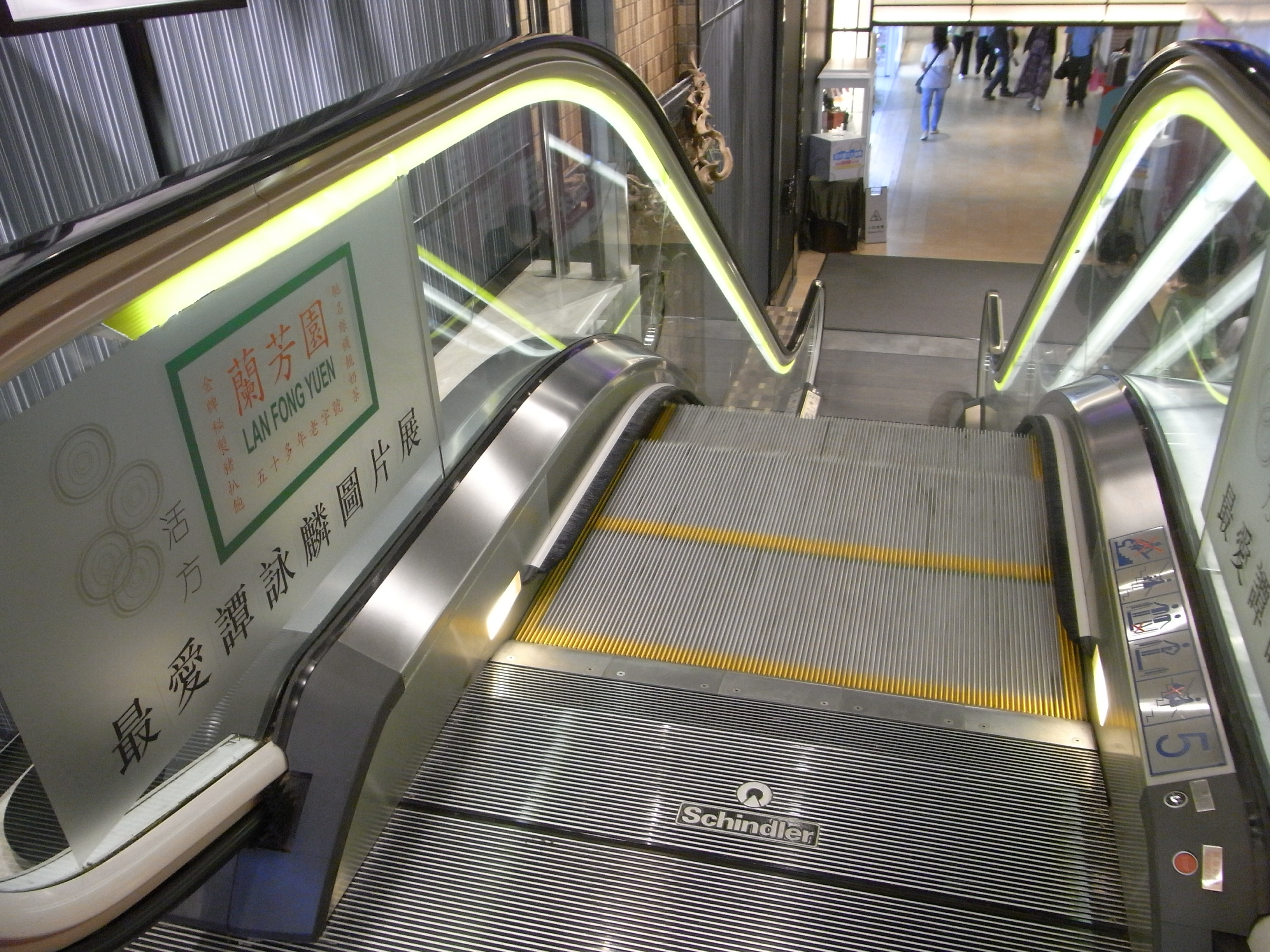 尖沙咀重慶大廈 活方商場 迅達集團 扶手電梯 蘭芳園 宣傳方式